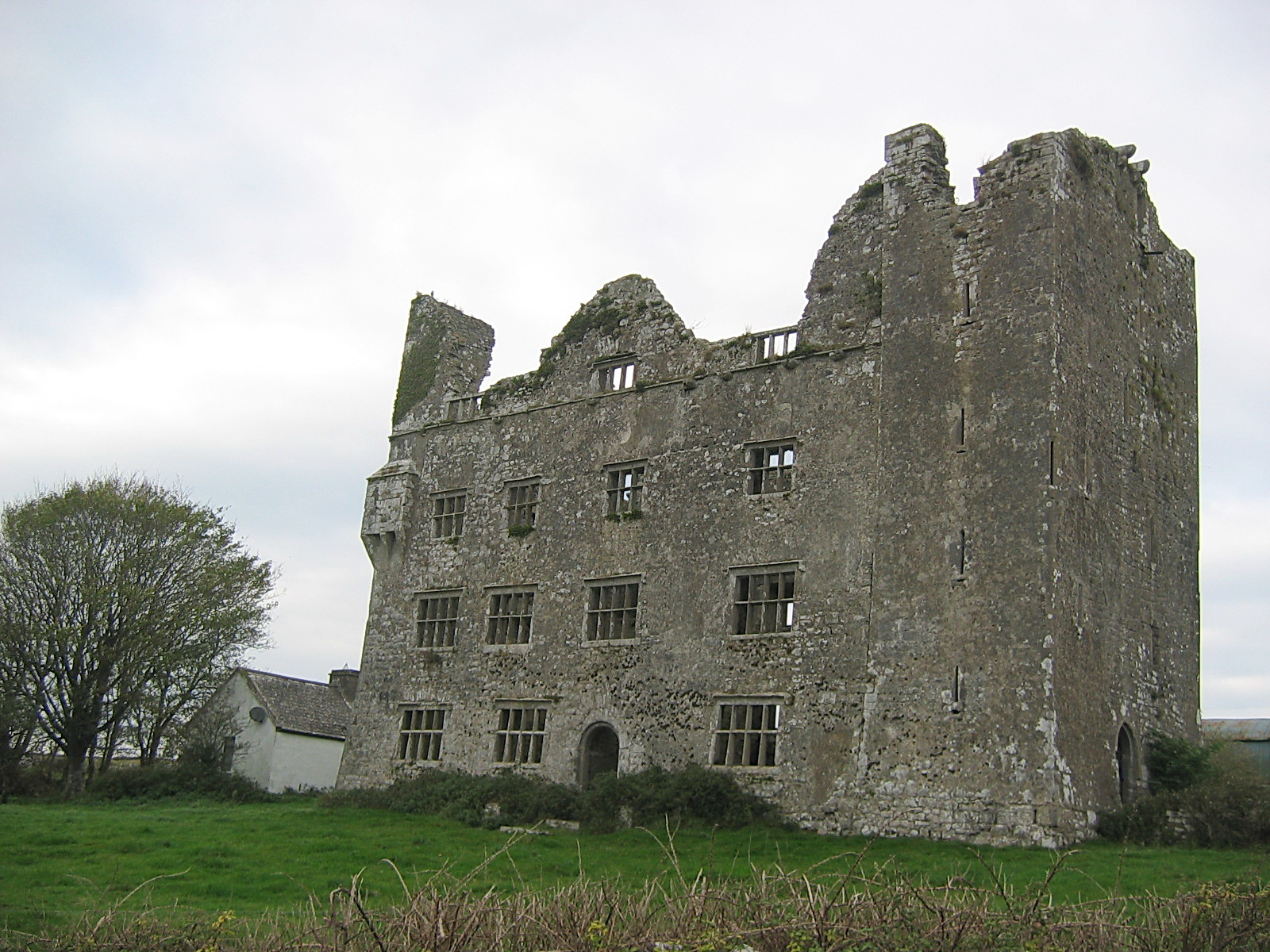 Depicted place: Leamaneh Castle